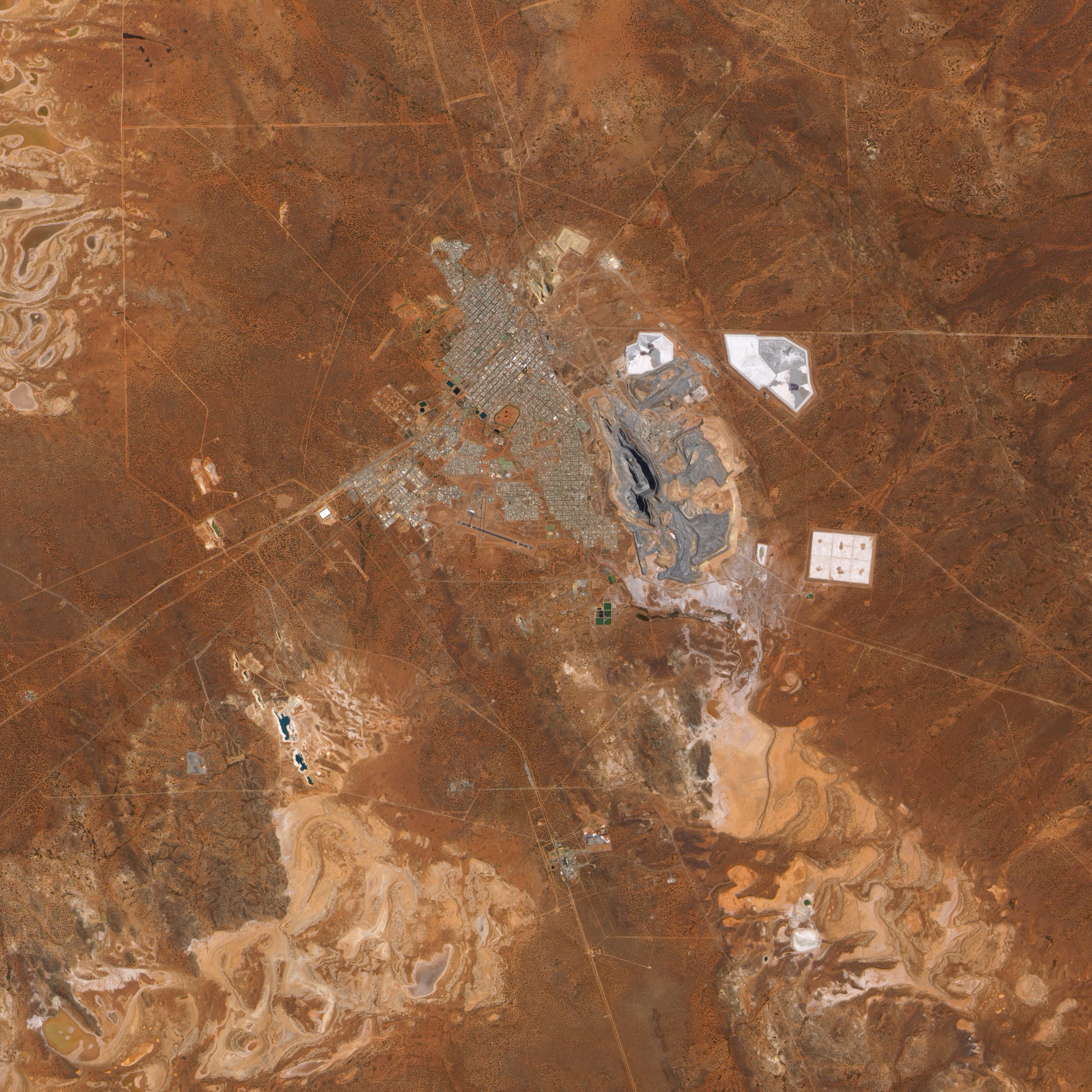 The pit that gives the mine its name appears in the centre of the image, and some of the steep pit’s walls appear in shadow while others are illuminated by the Sun. Related mining operations form a rough semicircle on the eastern side of the pit; a cluster of buildings east-north-east of the pit is Fimiston Mill, where ore is processed. Waste dumps and grey-white tailings ponds sprawl over the arid landscape. Tailings are the rocks and chemicals left over after the gold is extracted. Because the chemicals used to separate gold from rock are often caustic, tailings usually pose hazards to human and/or environmental health and must be treated carefully. The metropolitan area of Kalgoorlie, marked by street grids and manicured green spaces, extends almost to the mine’s central pit. An airport, marked by a long runway, appears along the city’s southern margin. Founded during a late-nineteenth-century gold rush, Kalgoorlie, like the neighboring mine, occurs near an area nicknamed the “Golden Mile,” which is considered especially rich in gold deposits. As the beige and reddish colors in the image indicate, vegetation in the area is sparse.